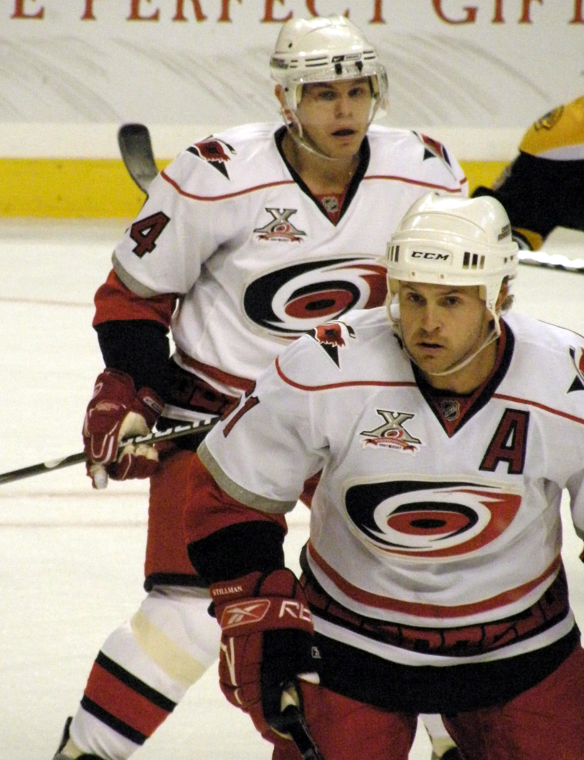 #61 Cory Stillman (LW) and #14 Sergei Samsonov (LW)